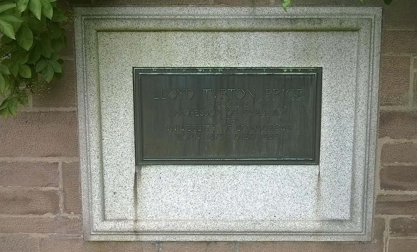 Lloyd Turton Price, Professor of Surgery, Western Cemetery, Dundee.